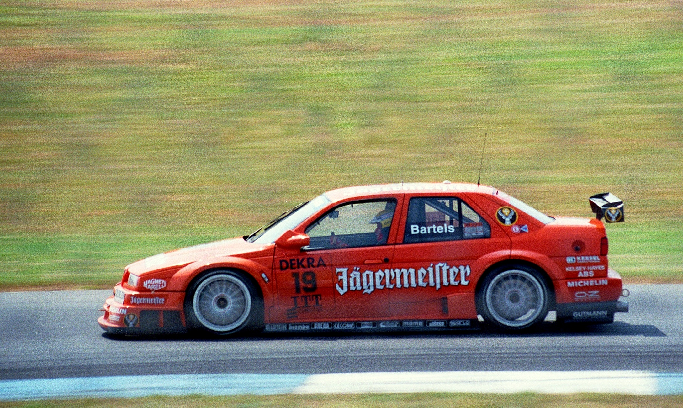 Michael Bartels - Alfa Romeo 155 V6 Ti exits Old Hairpin at Donington 1995Date 18 April 2020, 16:15Source Michael Bartels - Alfa Romeo 155 V6 Ti exits Old Hairpin at Donington 1995Author Martin Lee from London, UK Licensing